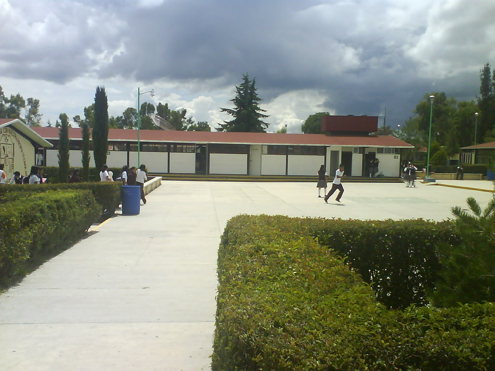 CBTis 199